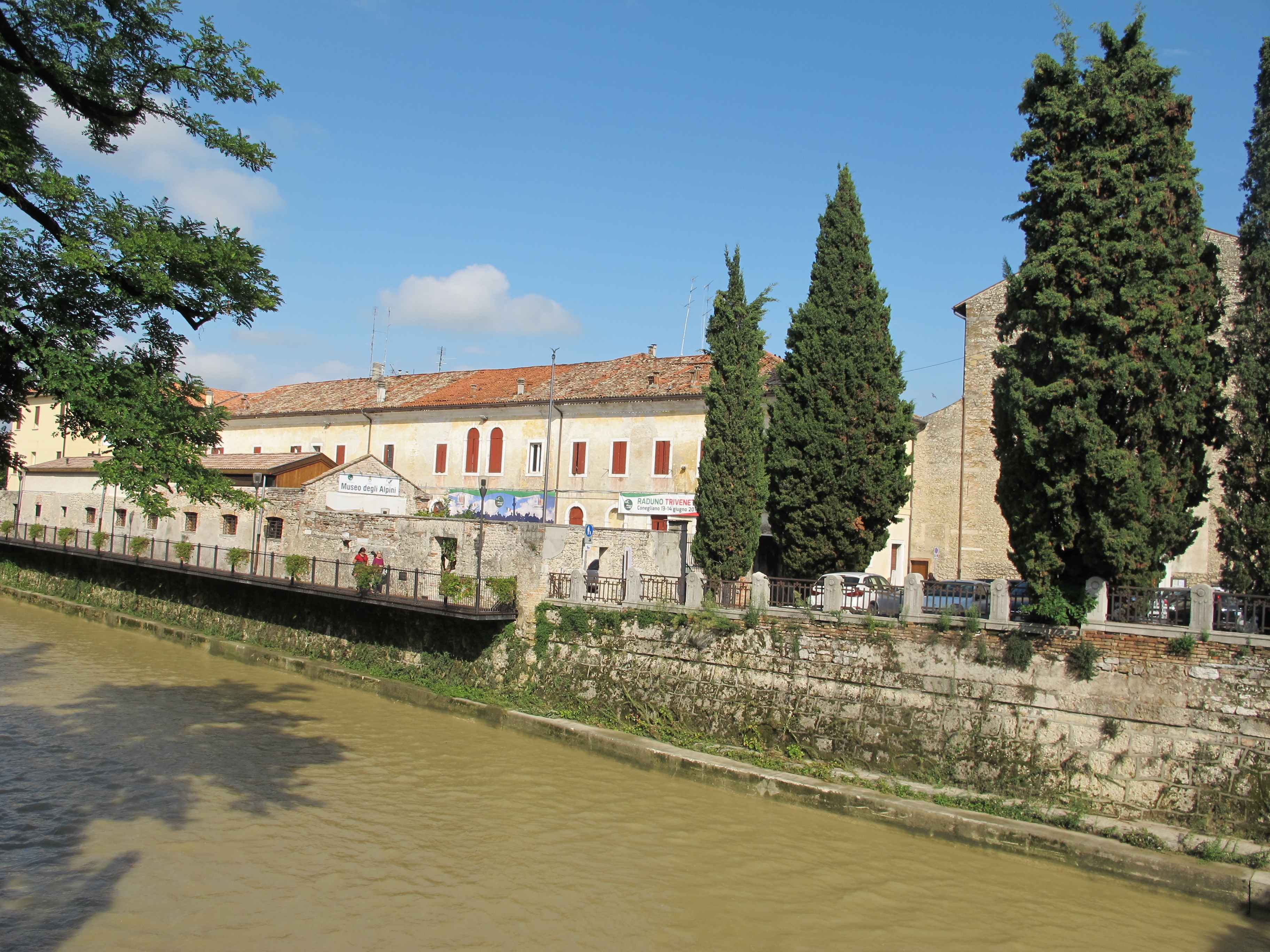 Italy, Veneto, Conegliano, museum of Alpini